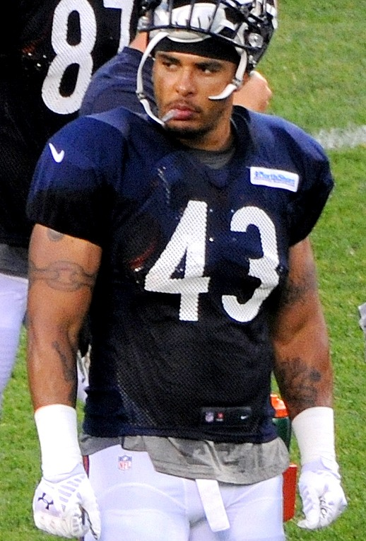 Fullback, Tony Fiammetta, at Chicago Bears training camp in 2014.